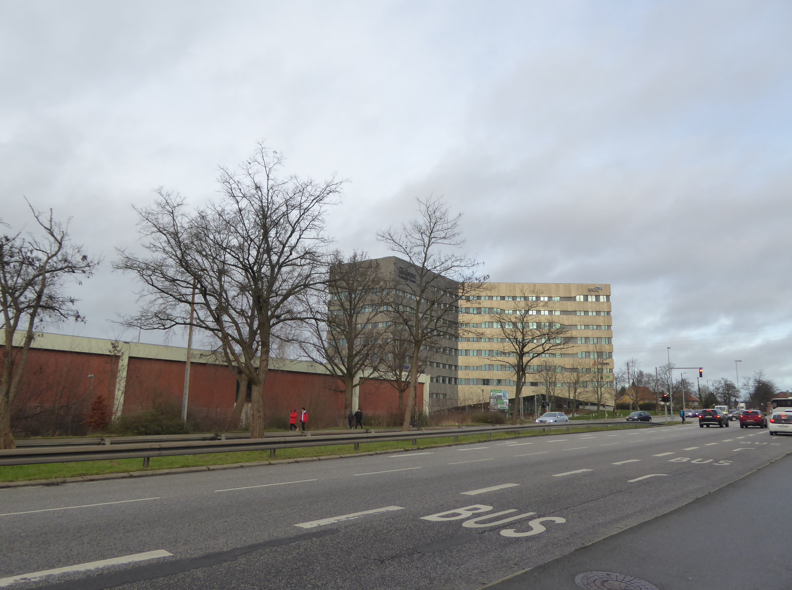 The street Gladsaxe Ringvej at the office building Gladsaxe Company House in Gladsaxe in Copenhagen. When the light rail Hovedstadens Letbane opens in 2025 Gladsaxevej Station will be situated here.